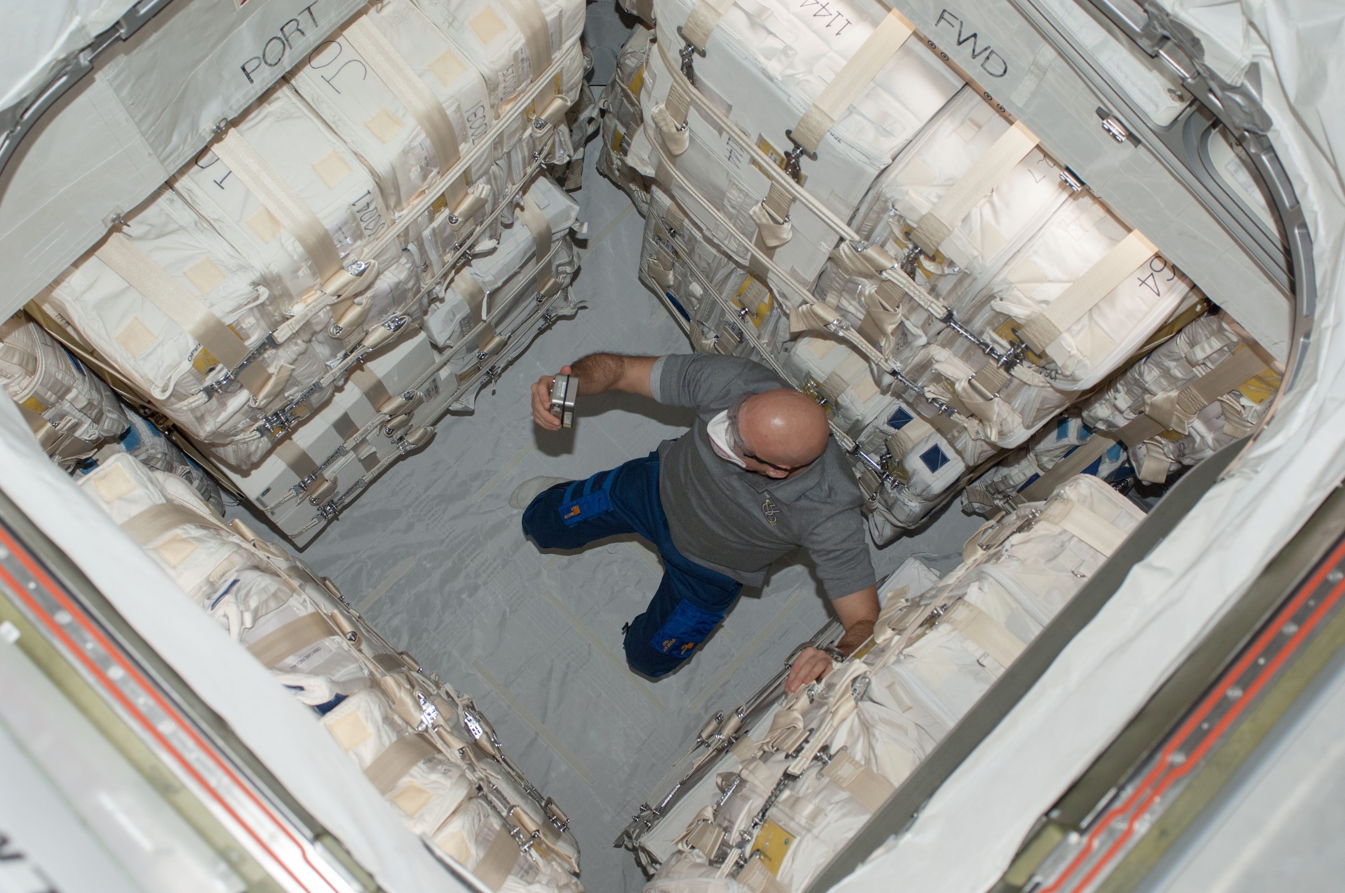 European Space Agency astronaut Luca Parmitano, Expedition 36 flight engineer, using a Russian AK-1M absorber, samples the air in the newly attached Japanese "Kounotori" H2 Transfer Vehicle-4 (HTV-4) docked to the International Space Station's Harmony node.